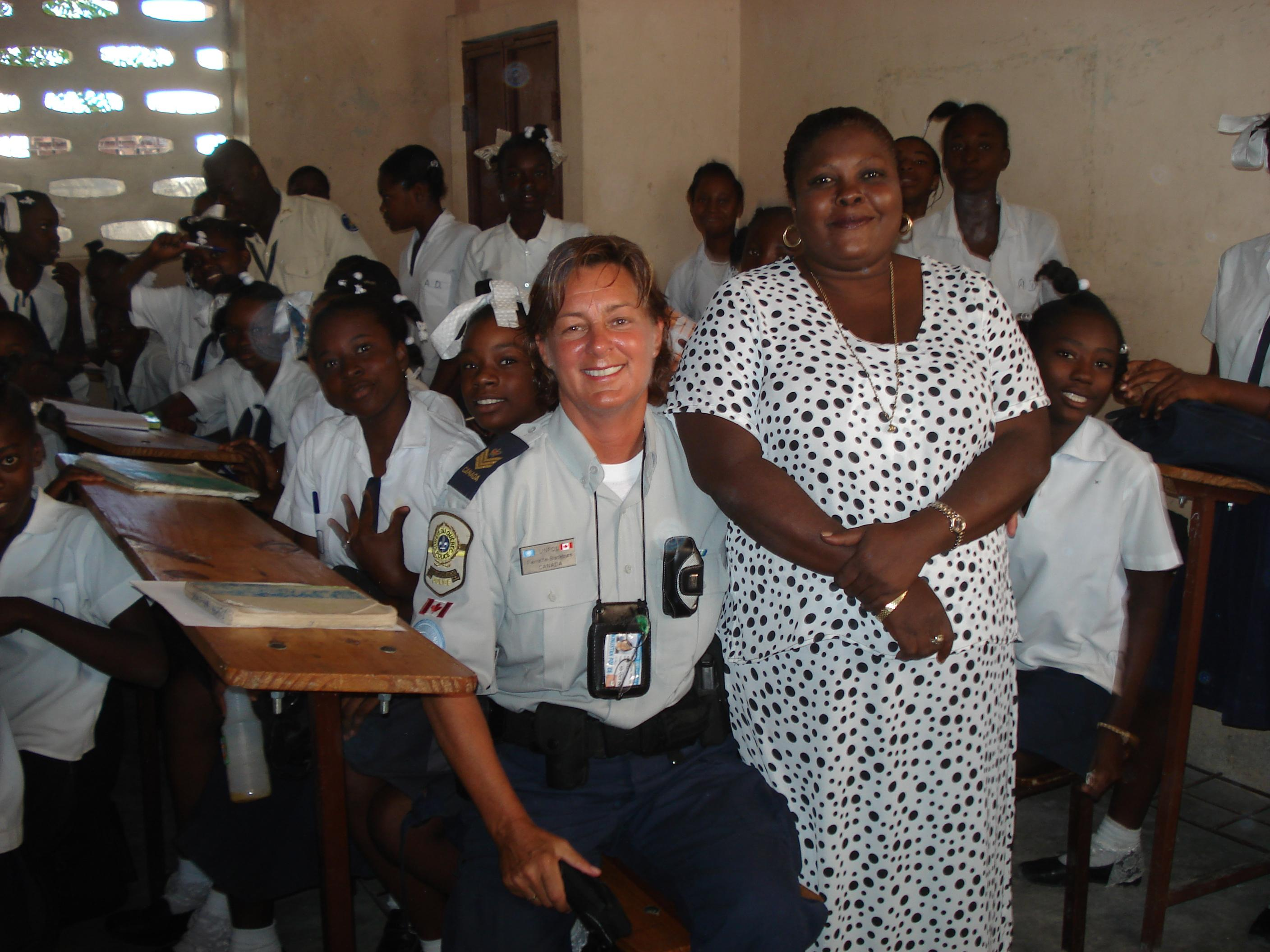 SQ police in MINUSTAH